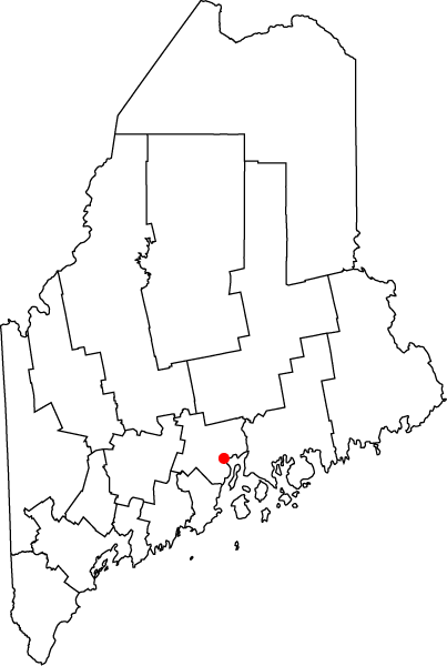 Map of the state of Maine with County Outlines, highlighting the city of Belfast.